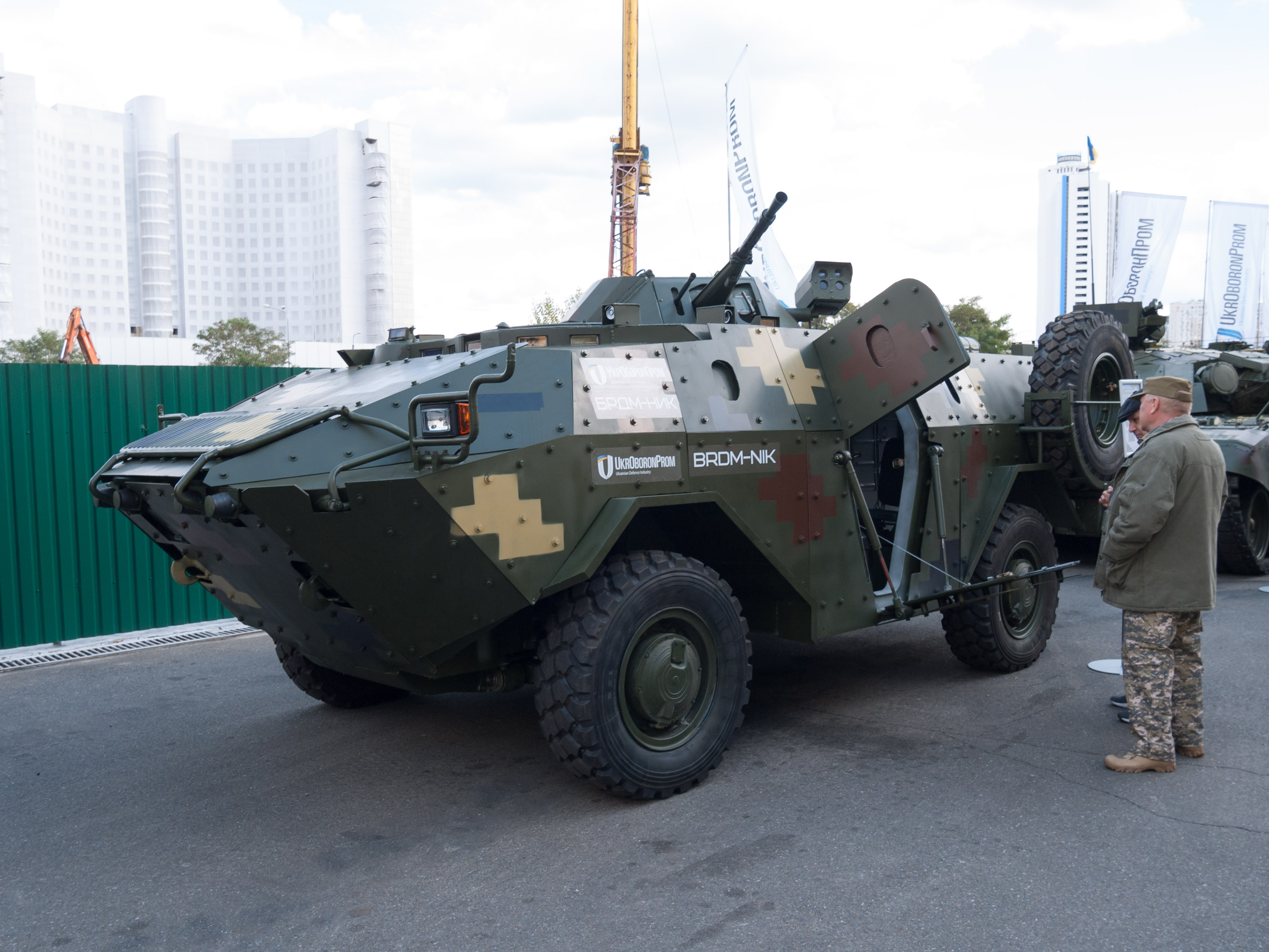 BRDM-NIK, a modified BRDM-2 vehicle by Mykolaiv armor plant, 2017